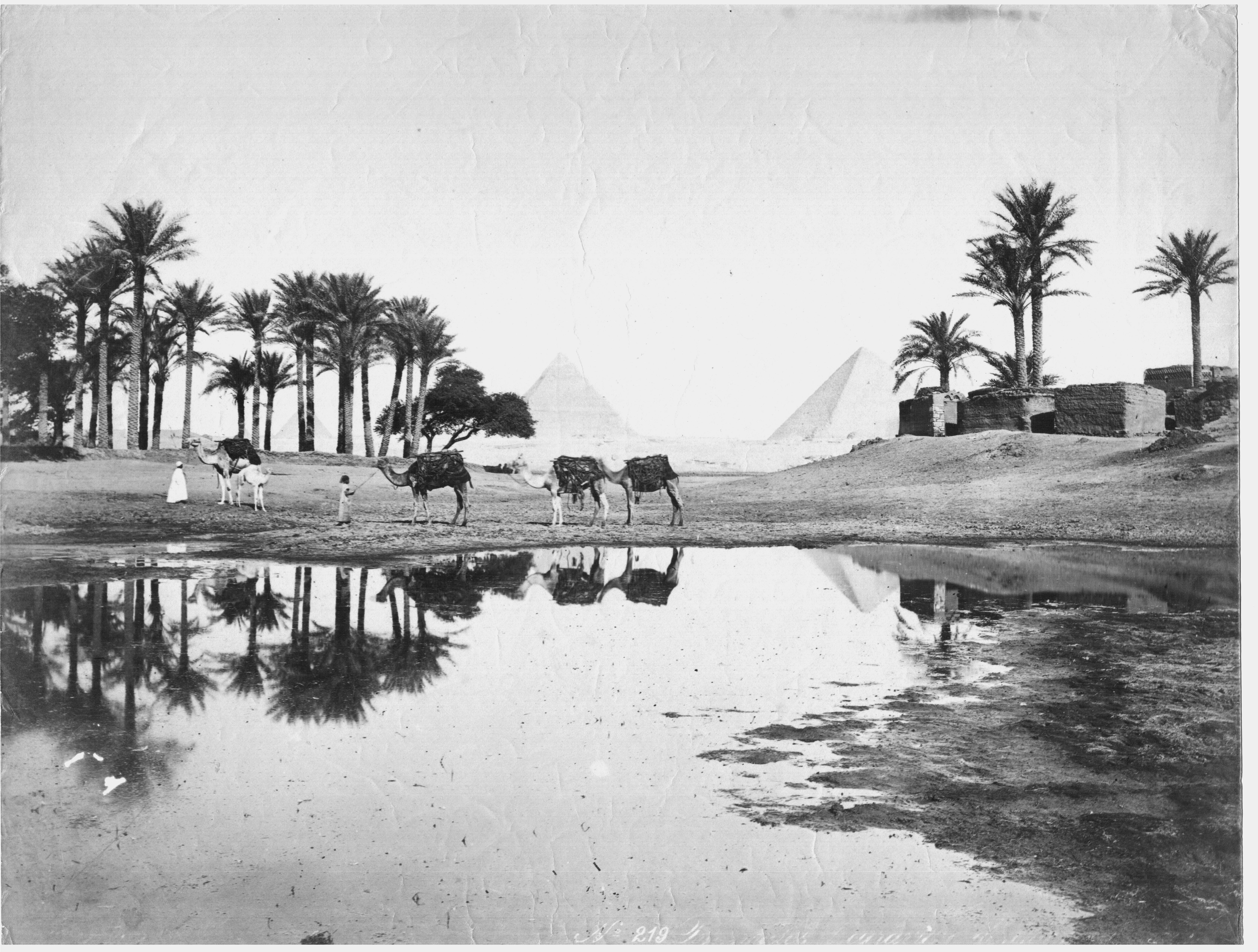 Photo on paper. Size 27,8 cm x 22 cm. Egypt. Unknown Hungarian photographer.No 269. Back side: Lapló, ex - libris. The photo was published under Creative Commons in the METAPOLISZ DVD line. (From METAPOLISZ ISBN: 963-229-987-6 to METAPOLISZ 260 DVD ISBN 978-615-5011-14-6 under ISBN number, from there published without ISBN number).